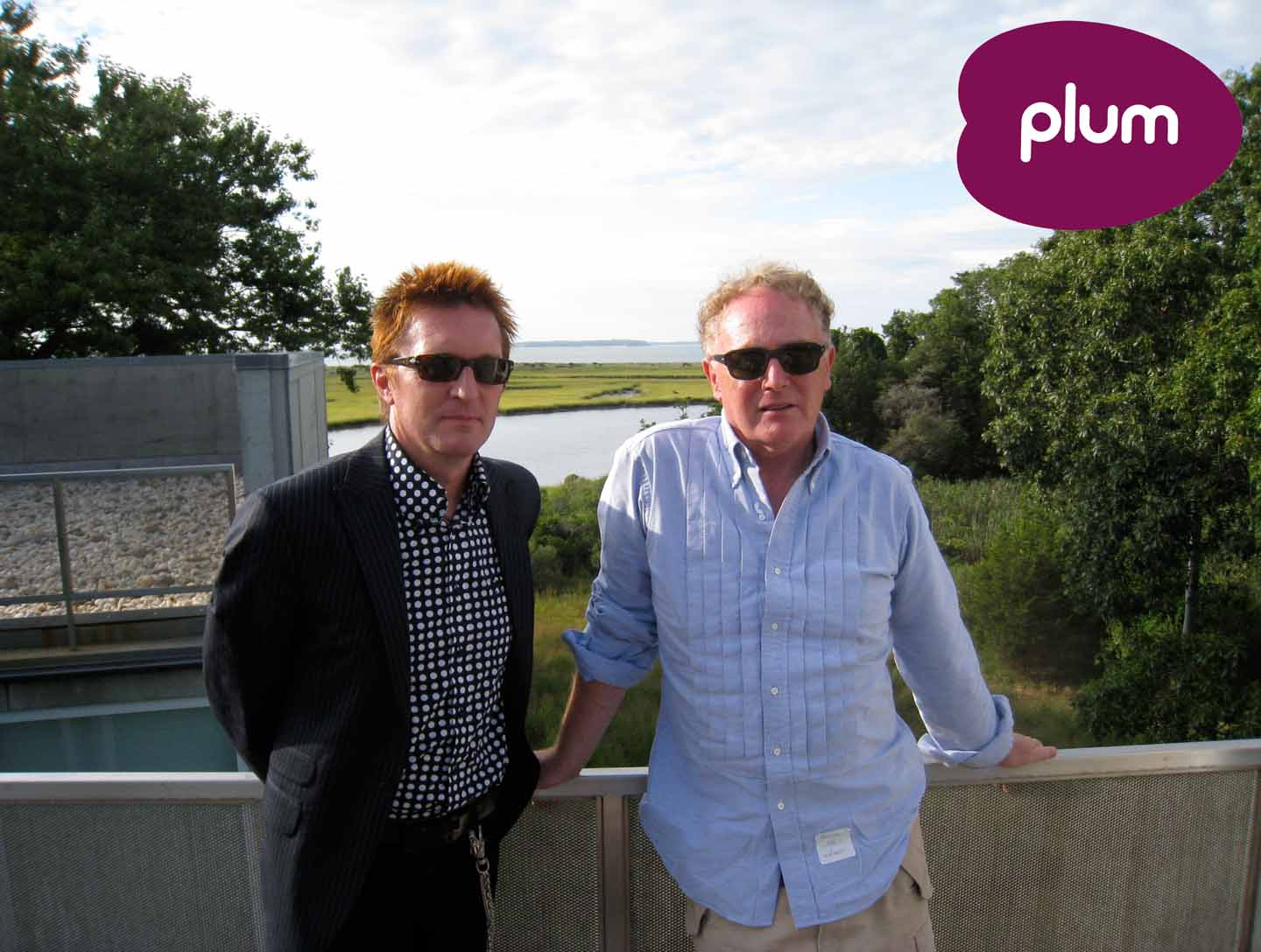 Keanan Duffty with punk impresario Malcolm McLaren for Plum TV. Copyright 2008 Keanan Duffty